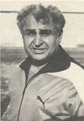 Ammo Baba, as the Iraqi head coach